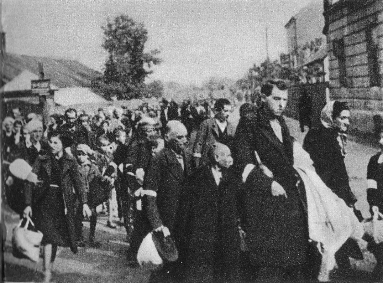 Deportation of Jews from Rzeszów ghetto